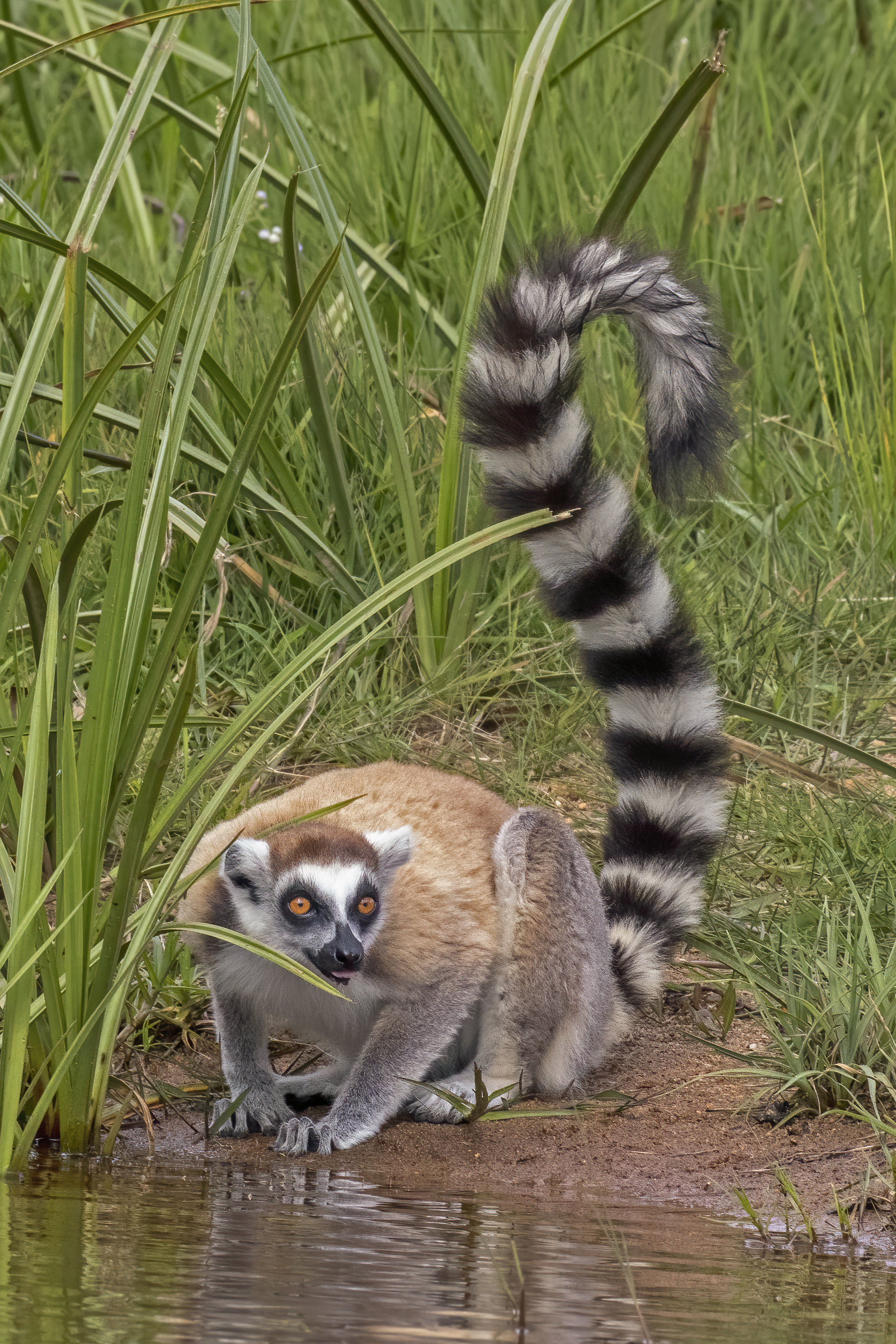 Ring-tailed lemur (Lemur catta), Andasibe, Madagascar